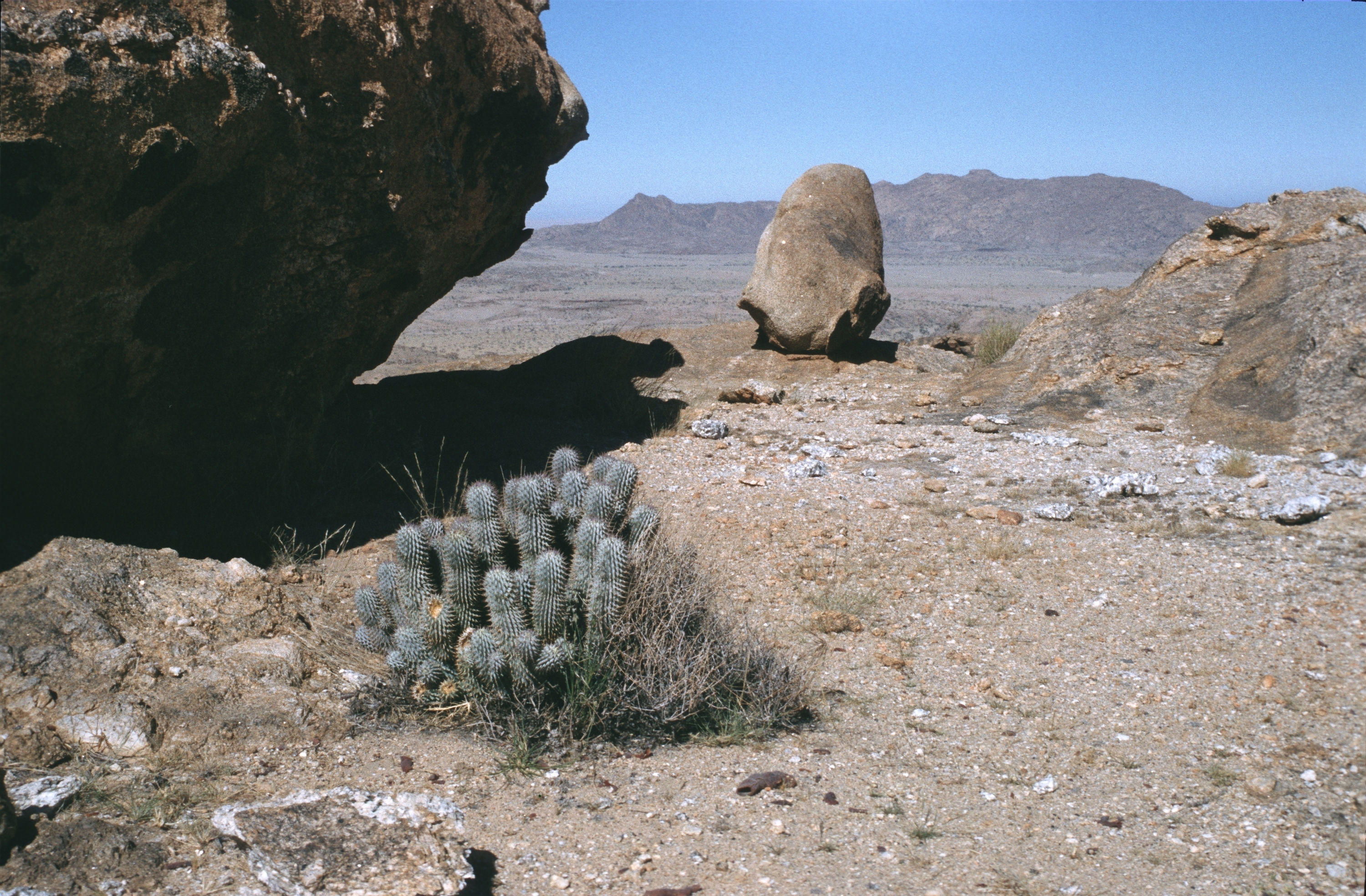 Hoodia gordonii, Farm Wilsonfontein, Karibib